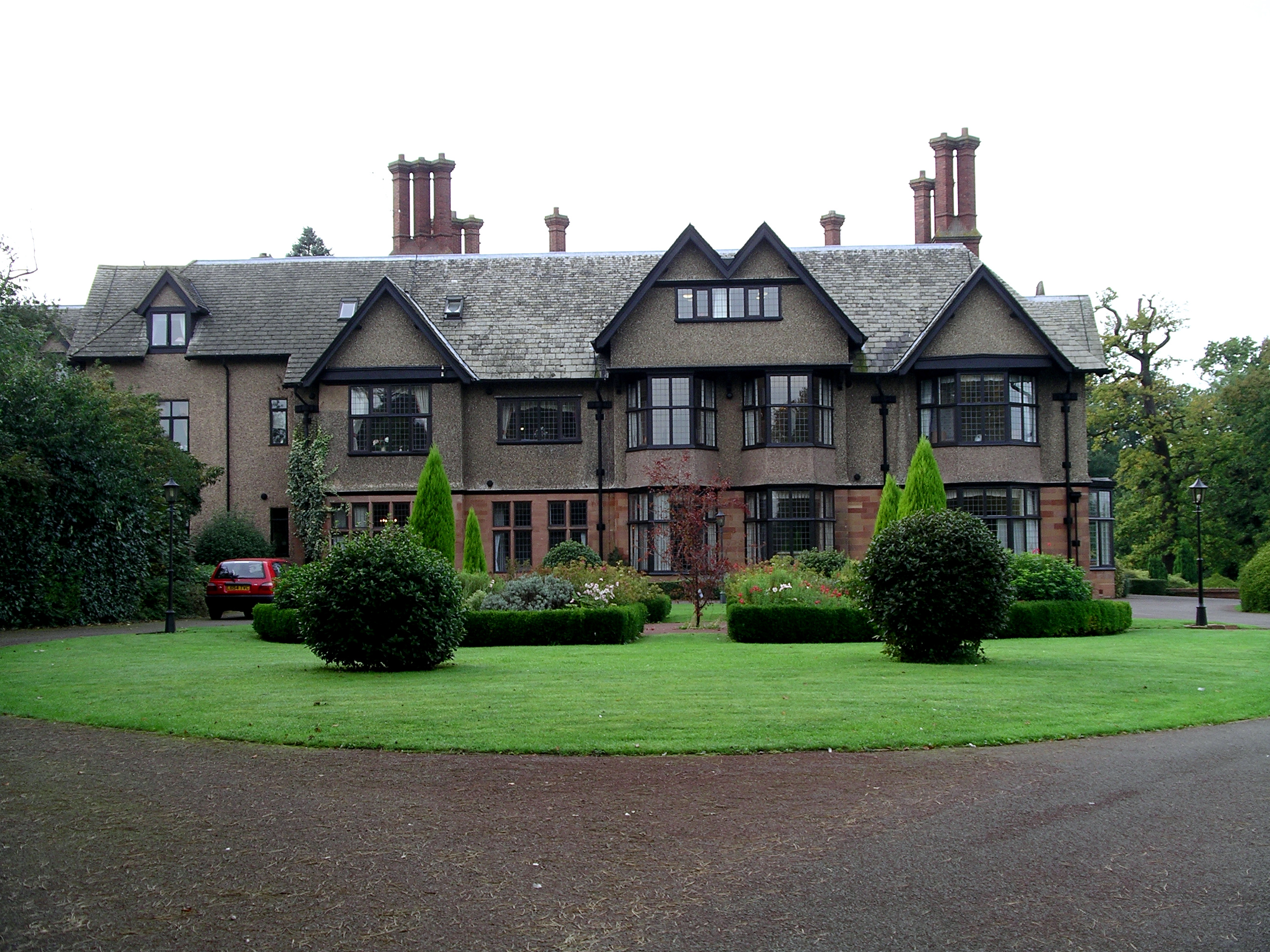 Allesley Hall, Coventry, England on 18 October 2006.